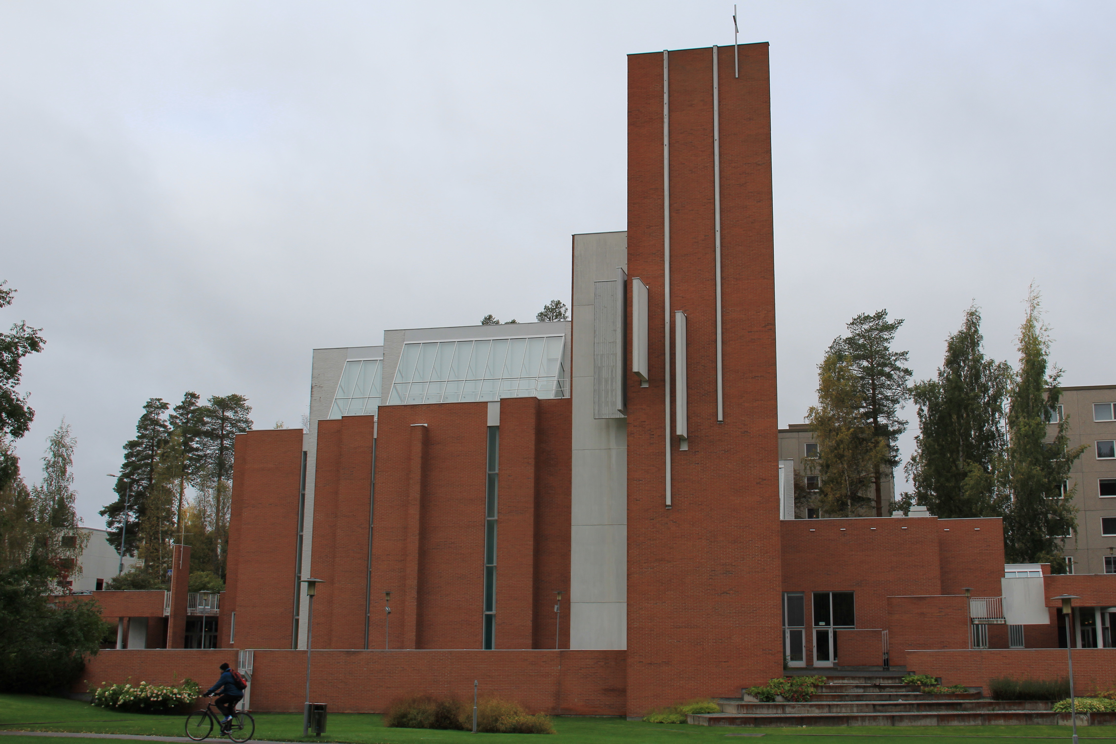 Männistö church, Kuopio, Finland. - Completed in 1992, designed by architects Juha Leiviskä and Pekka Kivisalo. - Main facade from east.